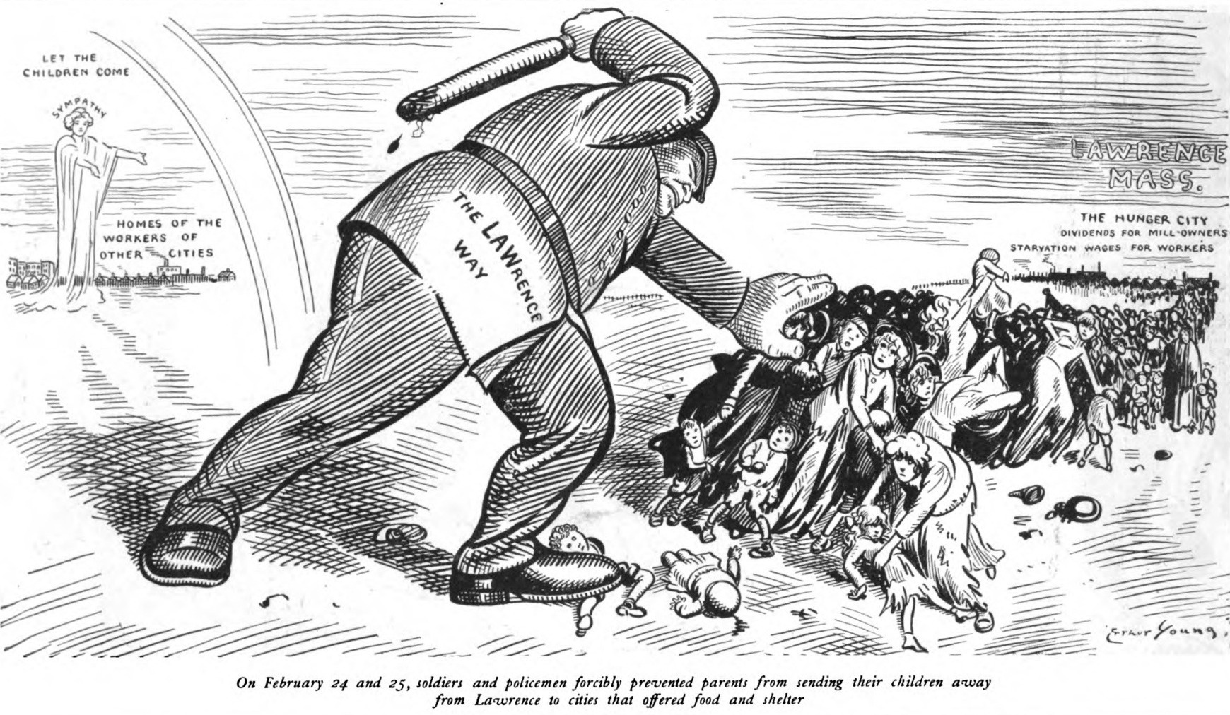 Political cartoon which shows a policeman during the Lawrence Strike of 1912 striking down on women and children, who the parents are trying send from Lawrence to other cities which have offered to provide them food and shelter. The caption below the cartoon stated "On February 24 and 25, soldiers and policemen forcibly prevented parents from sending their children away from Lawrence to cities which offered food and shelter."